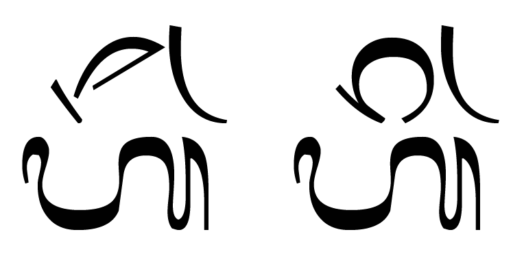 Two Balinese letter Ha, with diacritic symbols pepet and suku. Both of them has surang symbol.